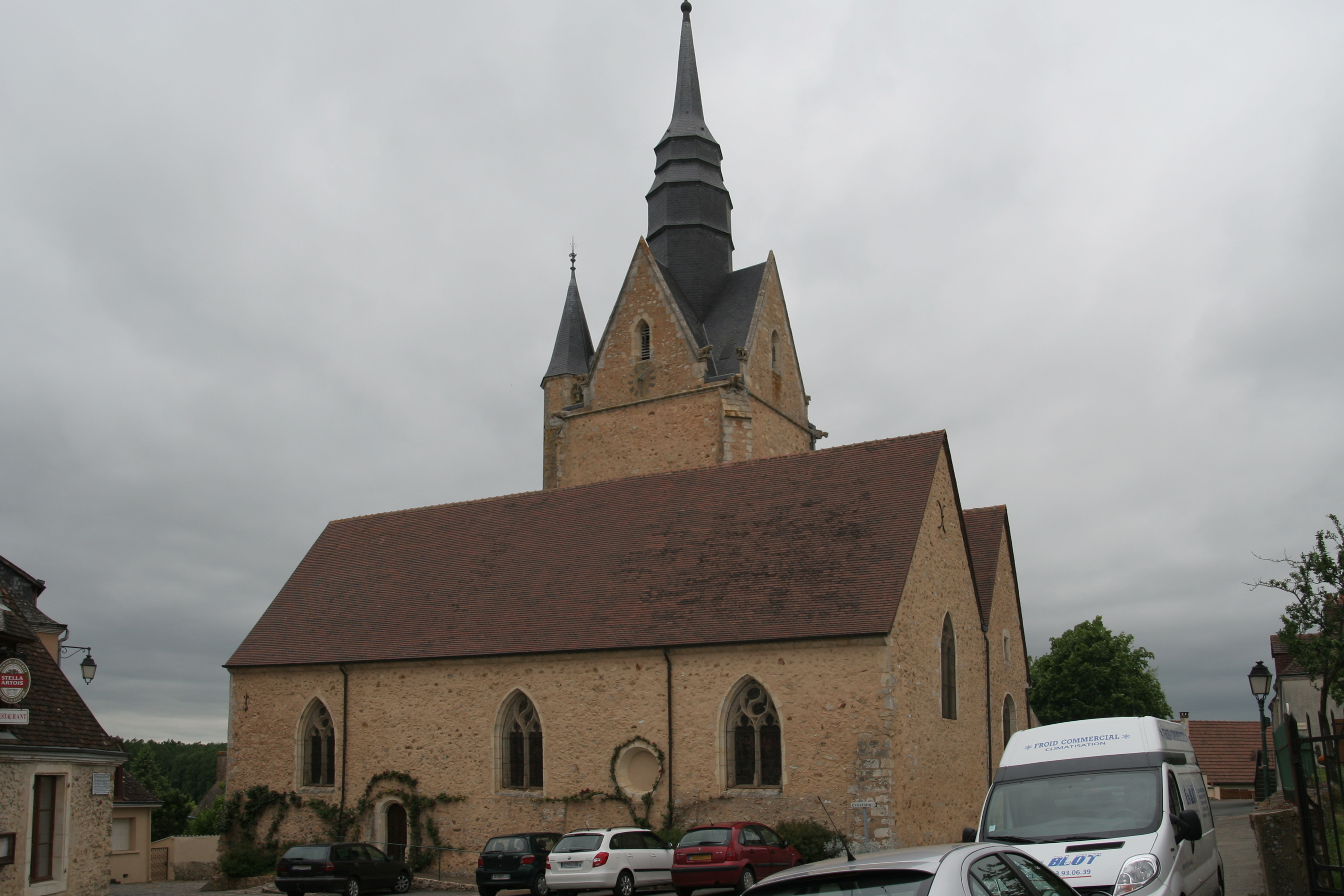 Church of Villaines-la-Gonais.